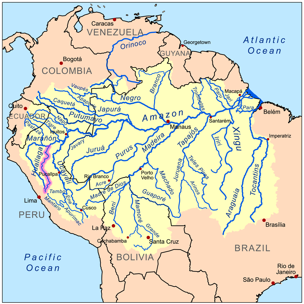 This is a map of the Amazon River drainage basin with the Huallaga River highlighted.